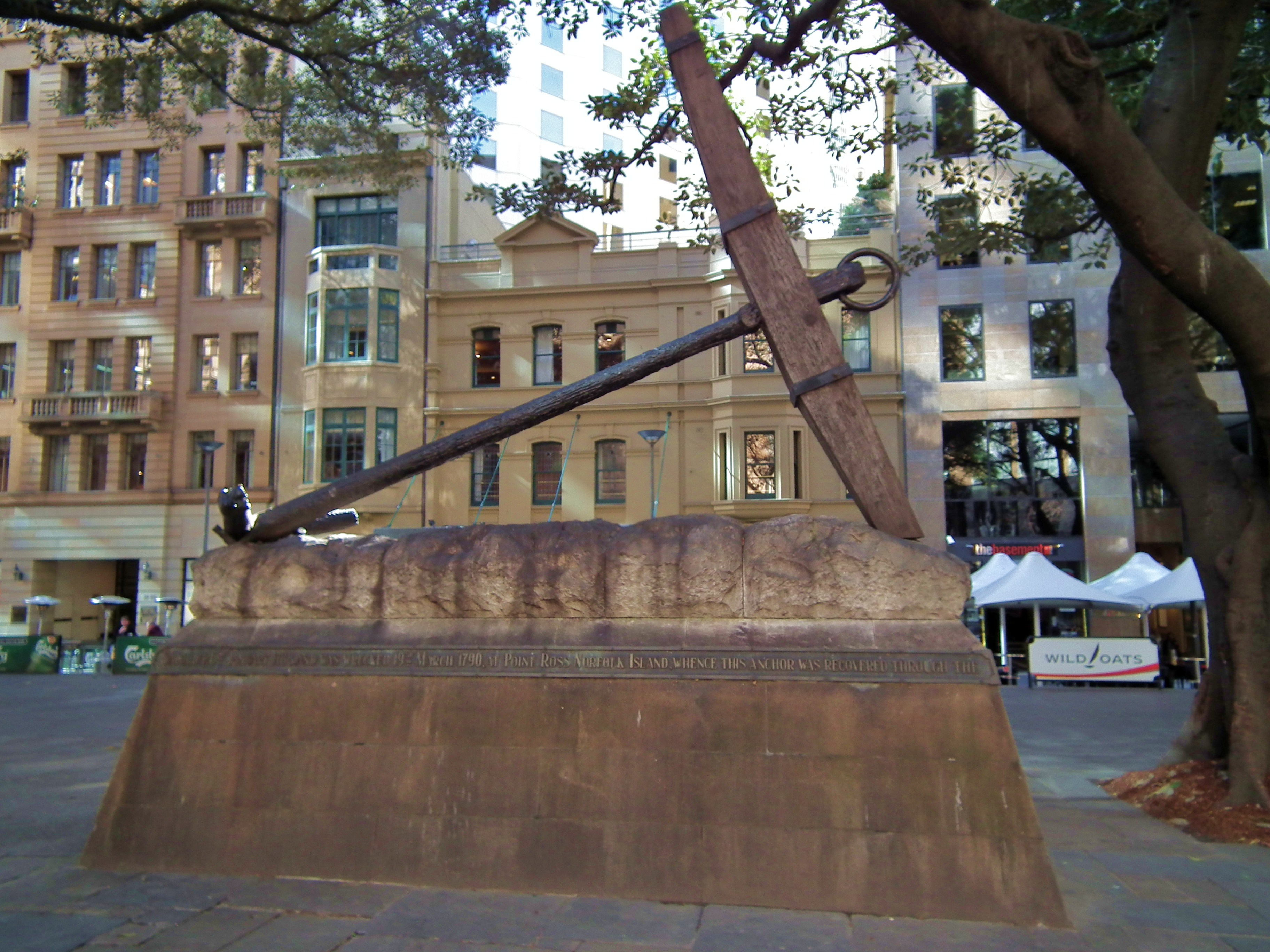 Anchor from HMS Sirius - Sydney, New South Wales. Located in Macquarie Place Park. The Sirius was the flagship of the First Fleet in 1788.